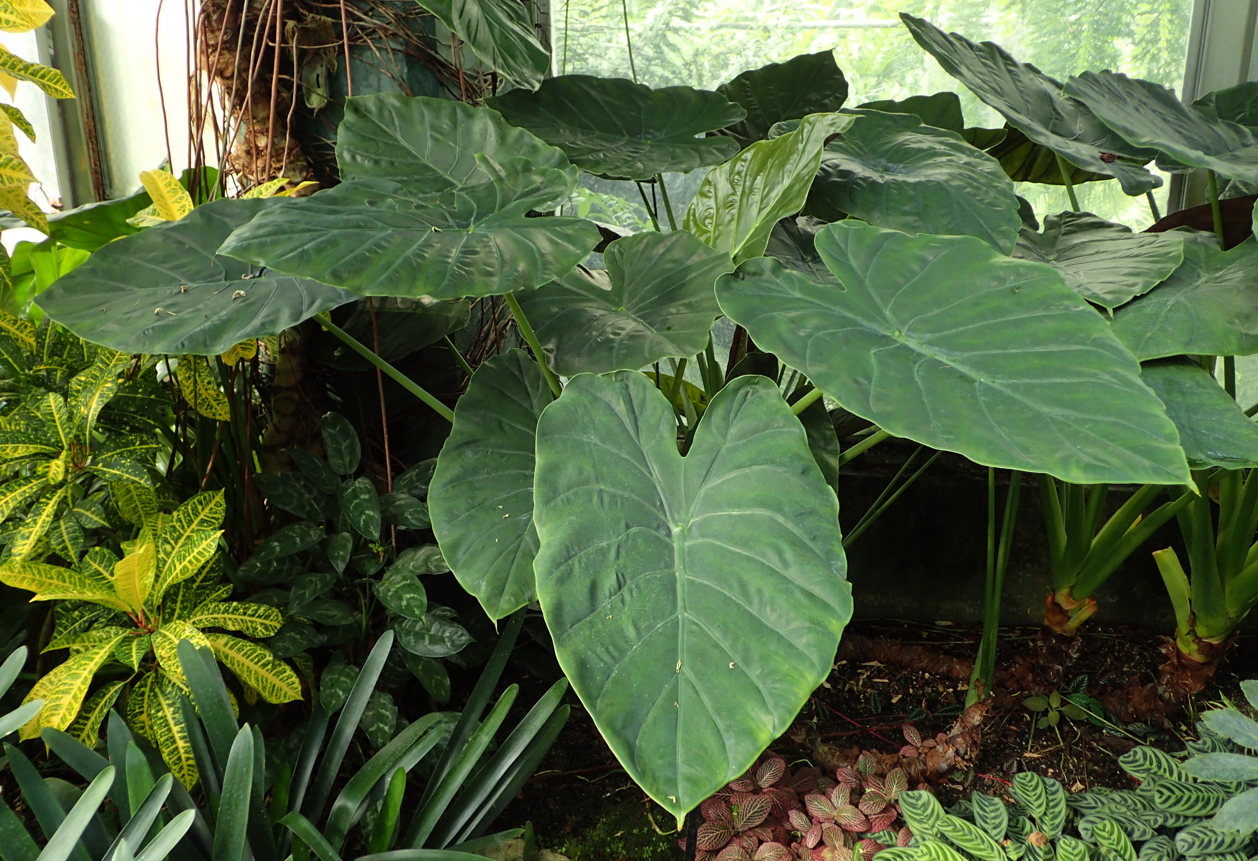 Alocasia wentii in Lincoln Park Conservatory, Chicago